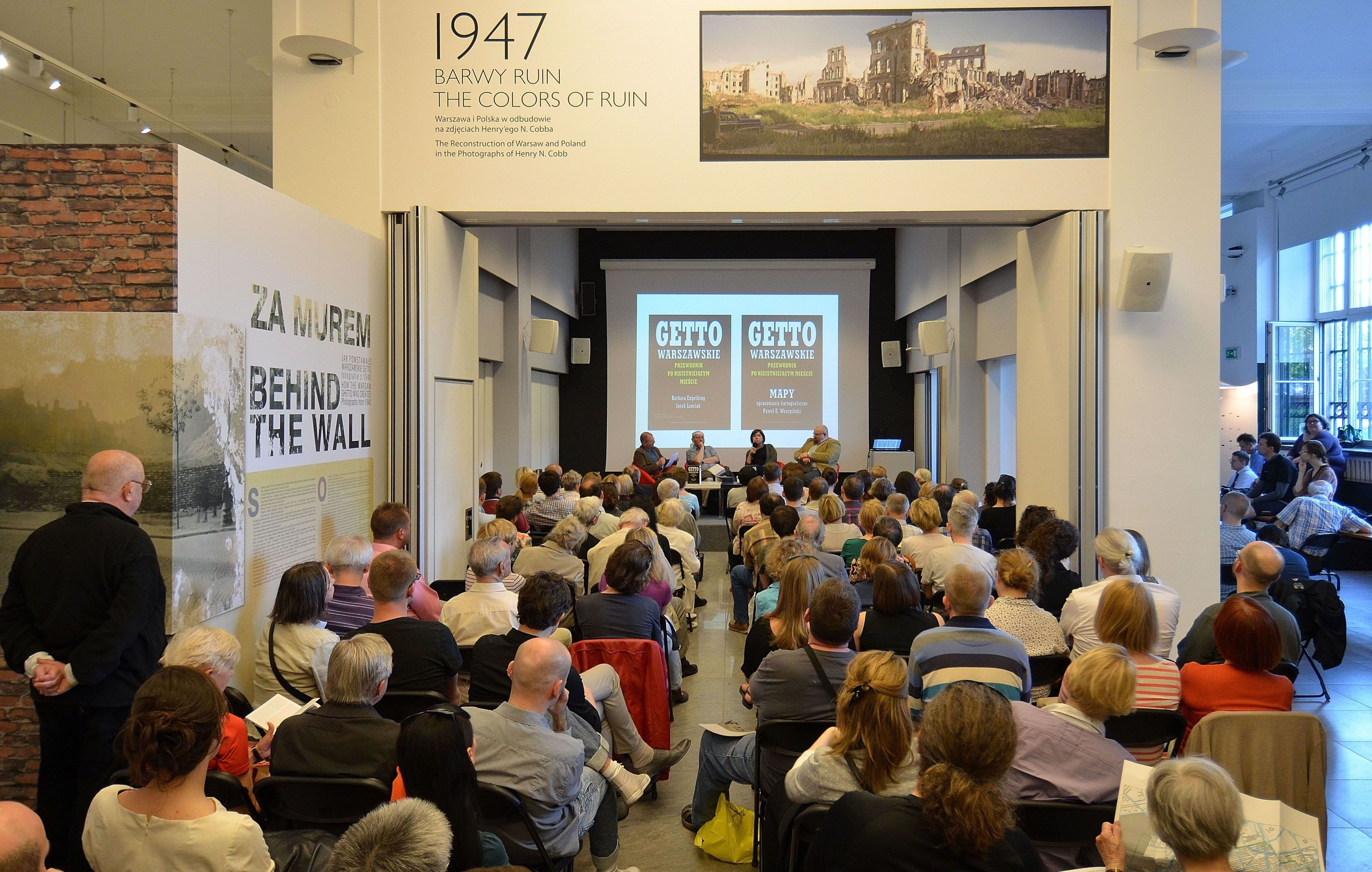 A meeting dedicated to the publishing of the second edition of the book "Warsaw Ghetto. A Guide to the Perished City" by Barbara Engelking and Jacek Leociak in the History Meeting House in Warsaw